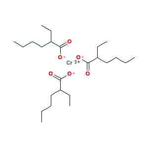 Chromium (III) 2-ethylhexanoate molecule